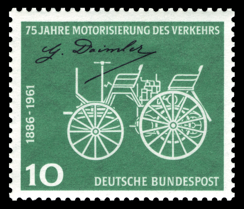 75 years of motorvehicles Graphics by Siegmund Ausgabepreis: 10 Pfennig First Day of Issue / Erstausgabetag: 03. Juli 1961 Michel-Katalog-Nr.: 363